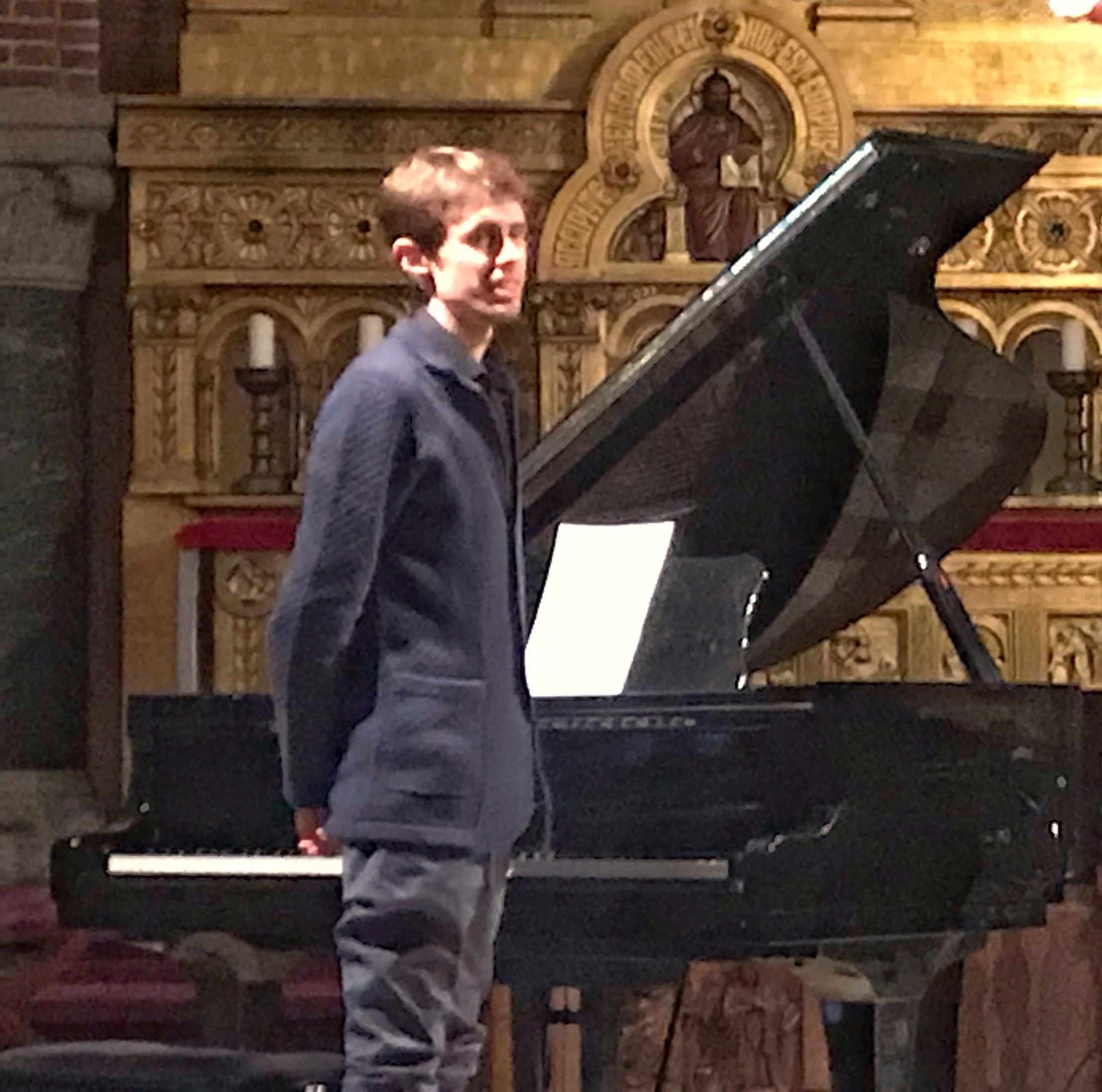 Sebastian Zawadzki in Sankt Augustins Kirke in Copenhagen in 2019